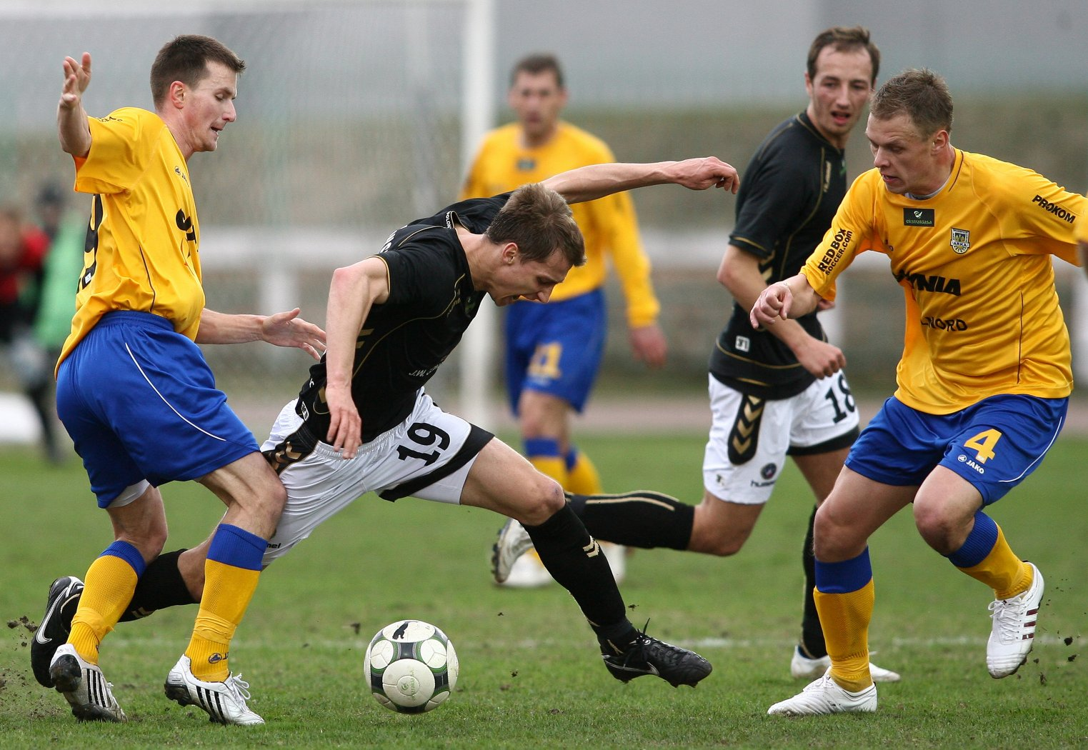 Daniel Gołębiewski (centre, no 19) of Polonia Warszawa in an encounter with ?? (left) and Adrian Mrowiec (right, no 4) of Arka Gdynia during an Ekstraklasa match, Łukasz Trałka (background, no 18) watches the scene.